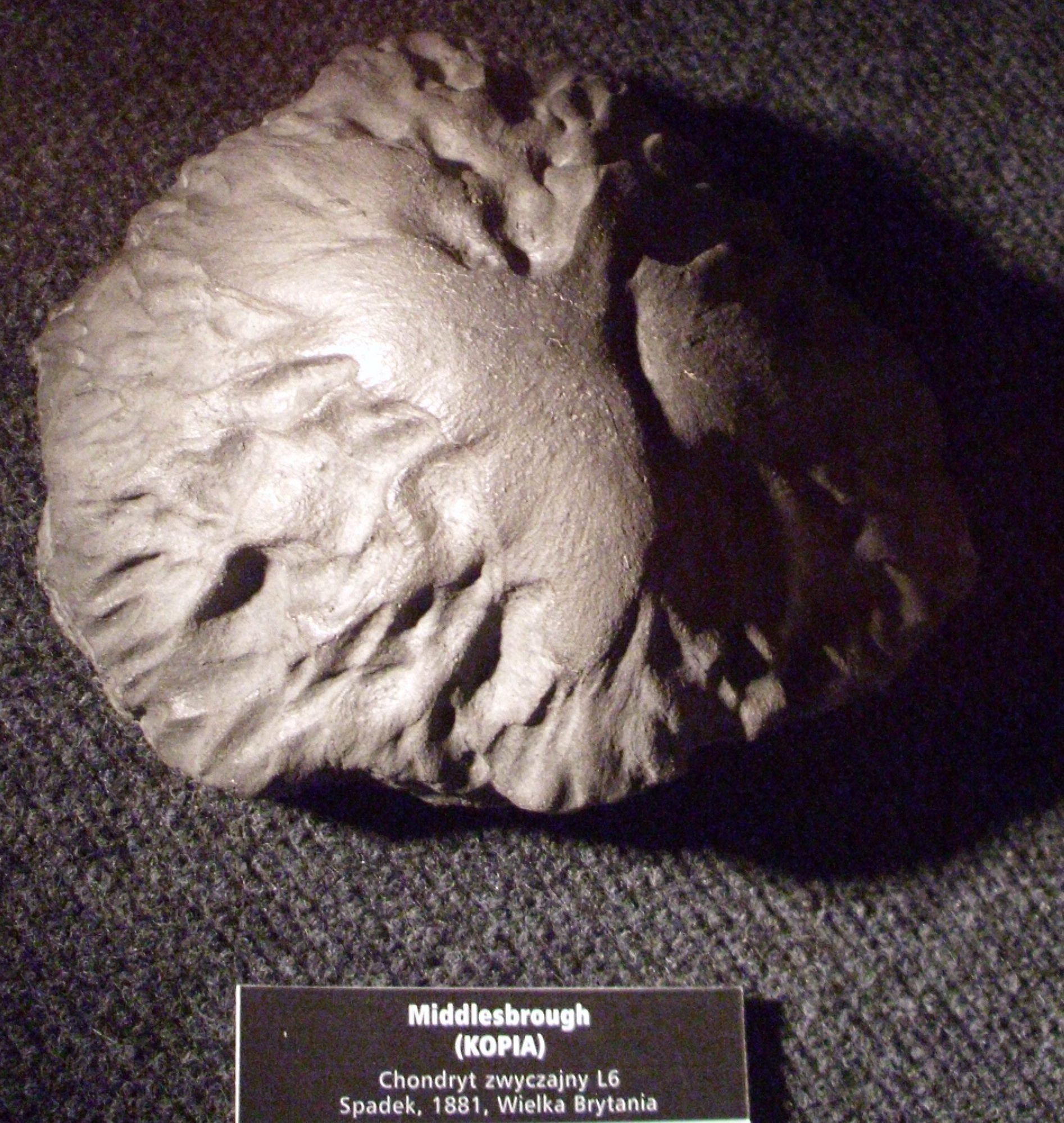 A replica of the Middlesbrough meteorite that was on temporary display at the museum of art in Warsaw, Poland. The meteorite, an ordinary chondrite (C6), fell to Earth in Middlesbrough, North Yorkshire, England, UK, on 14 March 1881.